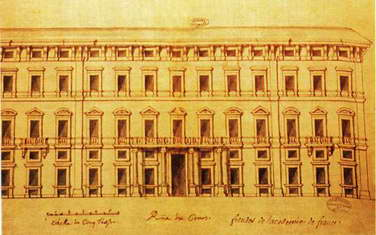 Jean-Baptiste Vallin de la Mothe. The facade of the Palazzo Mancini at the Via del Corso? Rome (Italy), the seat of the French Academy since 1725. Les Archives nationales, Paris